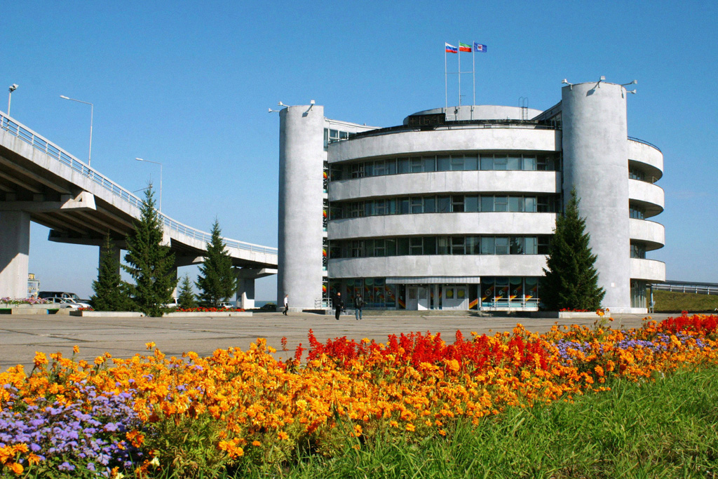 “Nizhnekamsk hydro-electric station”. The Nizhnekamsk hydro-electric station.